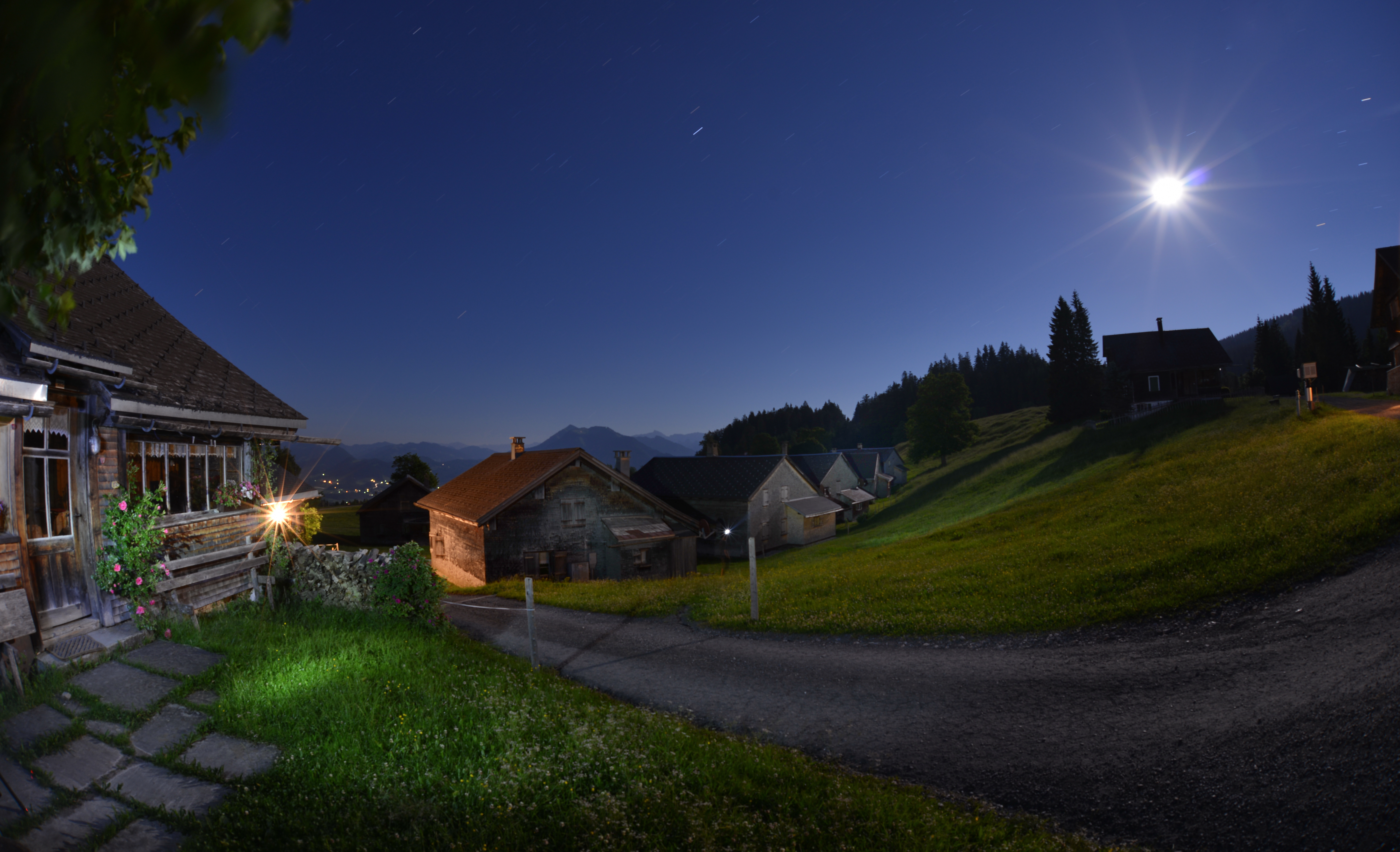 The Loosen Pass is an Alpine pass in the Bregenzerwald Mountain with an altitude of 1139 m above sea level. A. It is located on the territory of the Bödele in the Austrian province of Vorarlberg and connects the city Dornbirn in the Rhine Valley with the community Schwarzenberg in Bregenz Forest. The mountains on the image horizon from left to right: the Winterstaude 1.877m followed by the distinctive silhouette of the 23km away Hoher Ifen 2.230m.